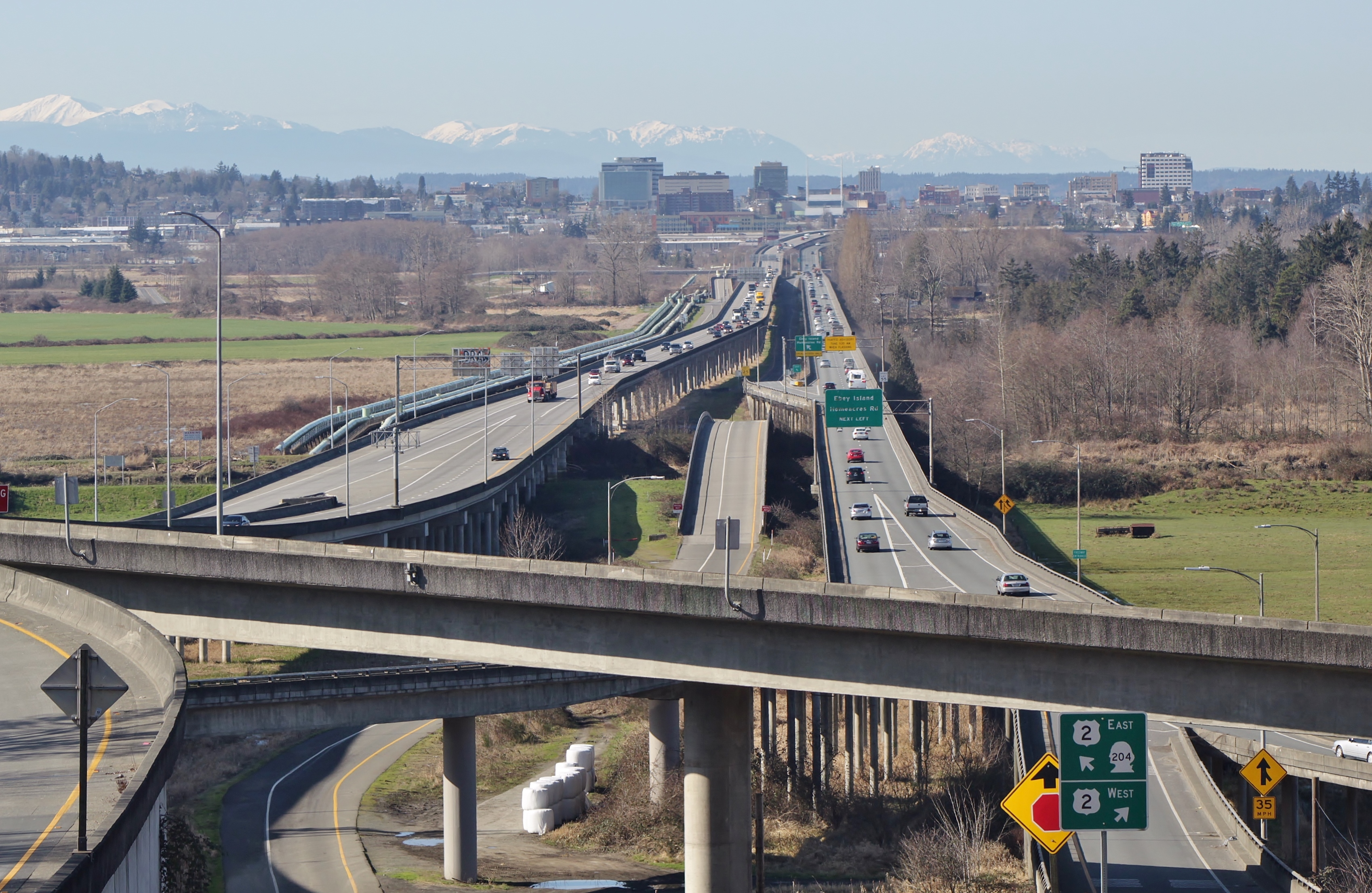 The Hewitt Avenue Trestle, carrying U.S. Route 2 across the Snohomish River Delta, seen from its east end near Lake Stevens. The skyline of Everett can be seen in the background.